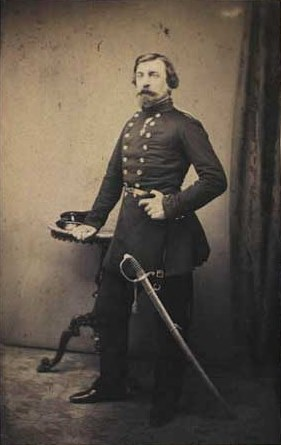 Andreas Peter Madsen (1822-1911), Danish painter, army officer, engraver, and cartographer